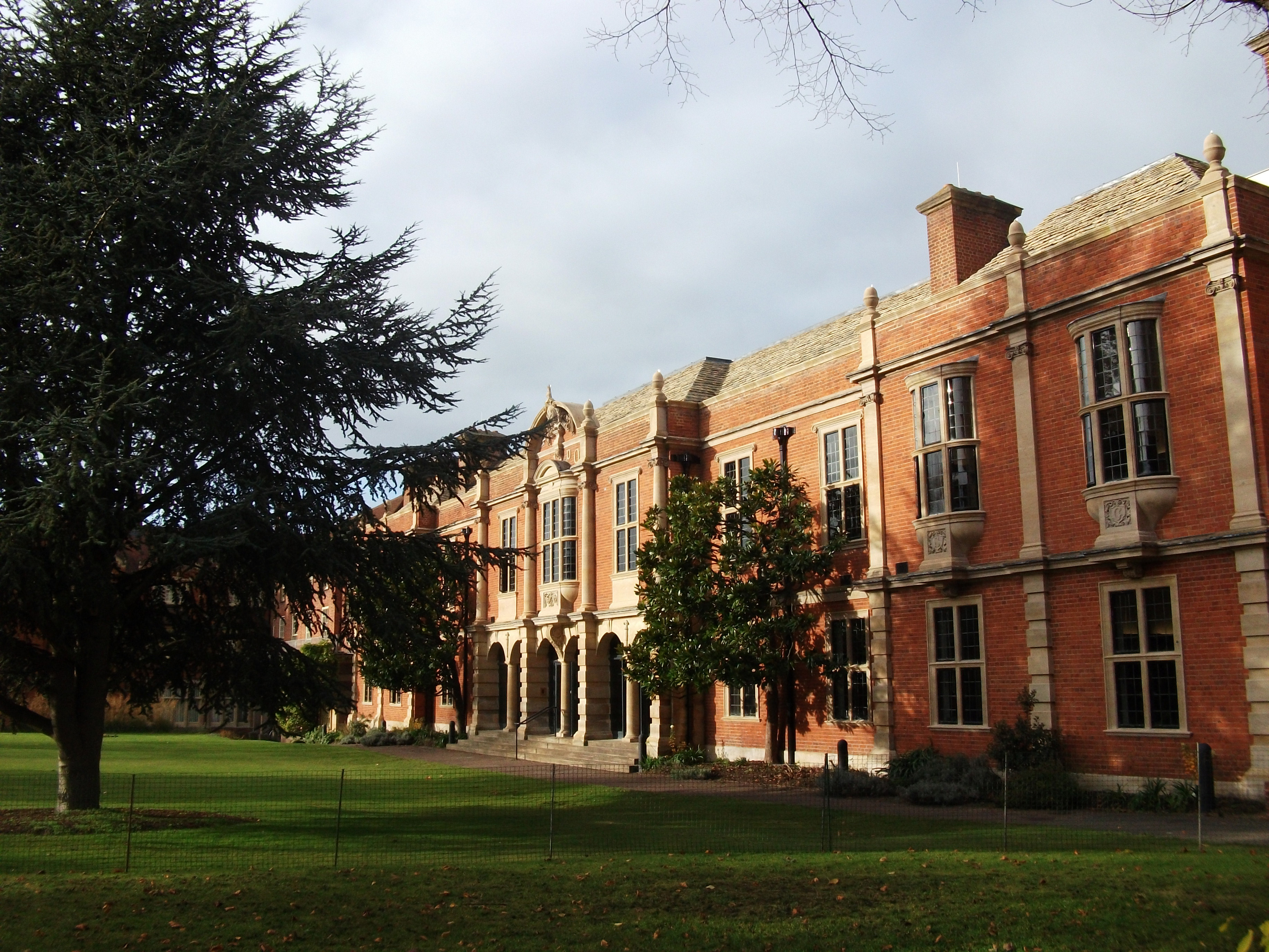 View of the college library